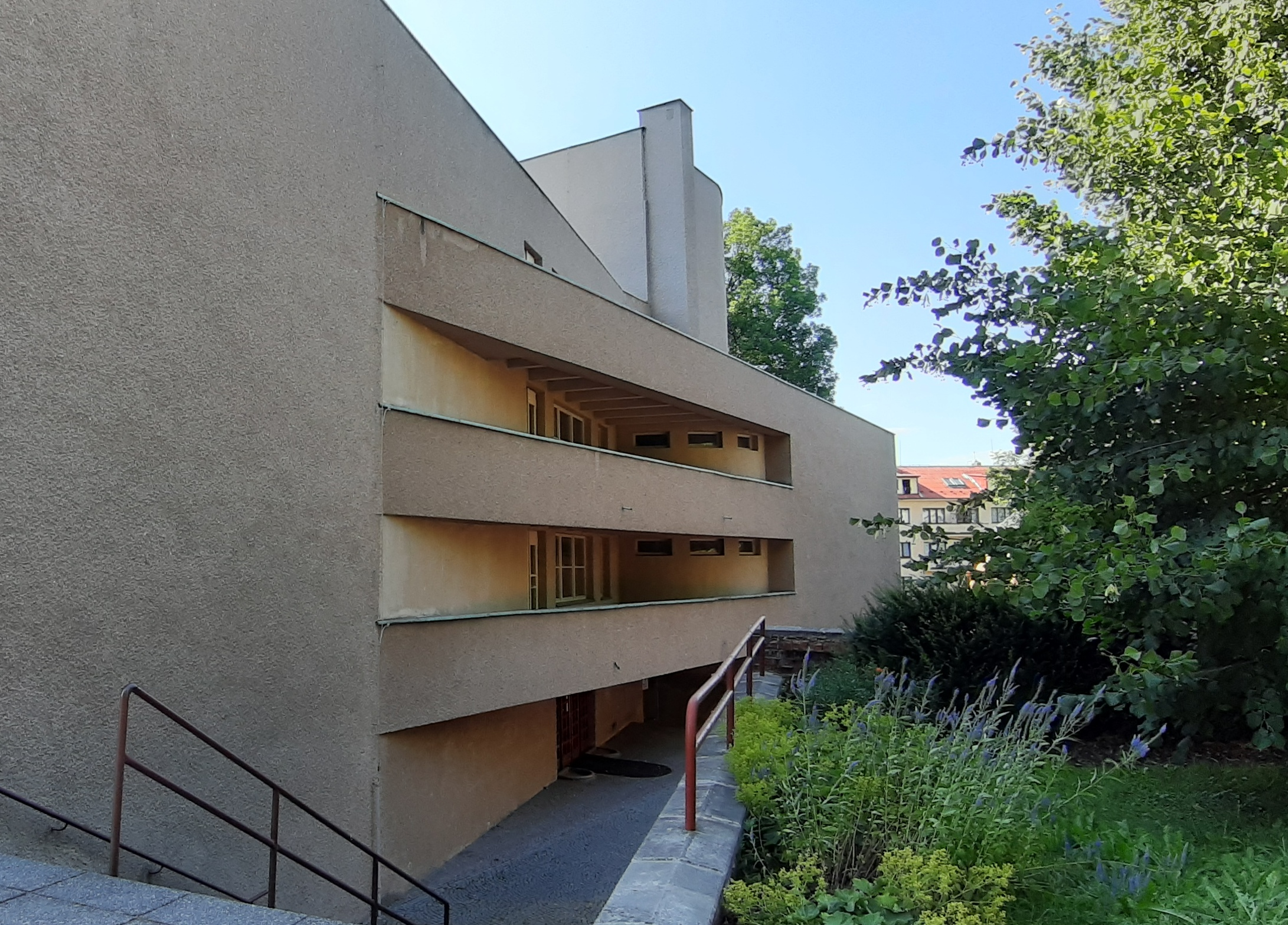 Roškot's Theater E